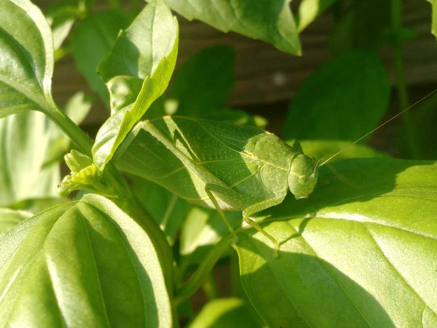 Bright green katydid in a basil plant is almost identical in color to the leaves